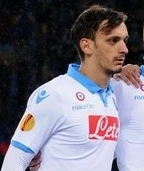 Italian football forward Manolo Gabbiadini, S.S.C. Napoli, 2015.